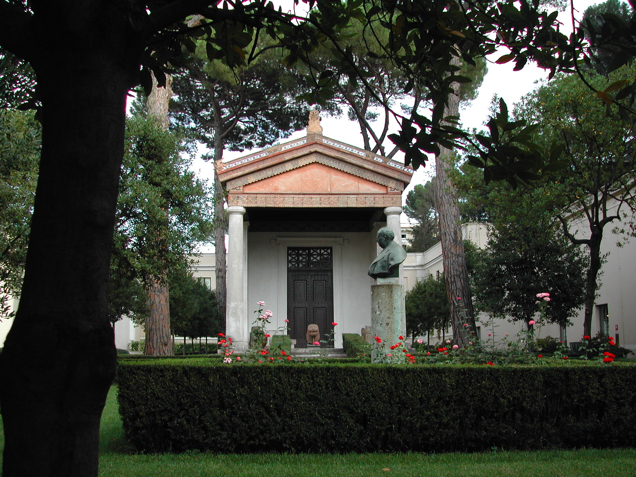 19th century reconstruction of an Etruscan temple, in the courtyard of the Villa Giulia Museum in Rome, Italy.